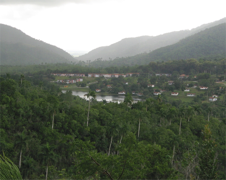 Las Terrazas, Cuba in 2008